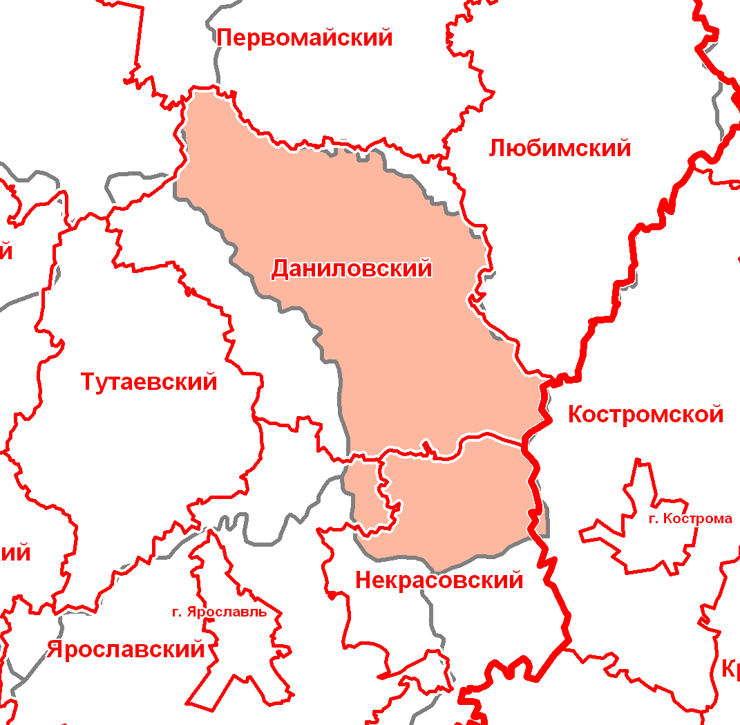 Maps of Yaroslavl Governorate